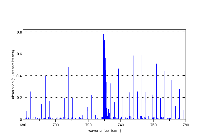 Simulated ro-vibrational spectrum